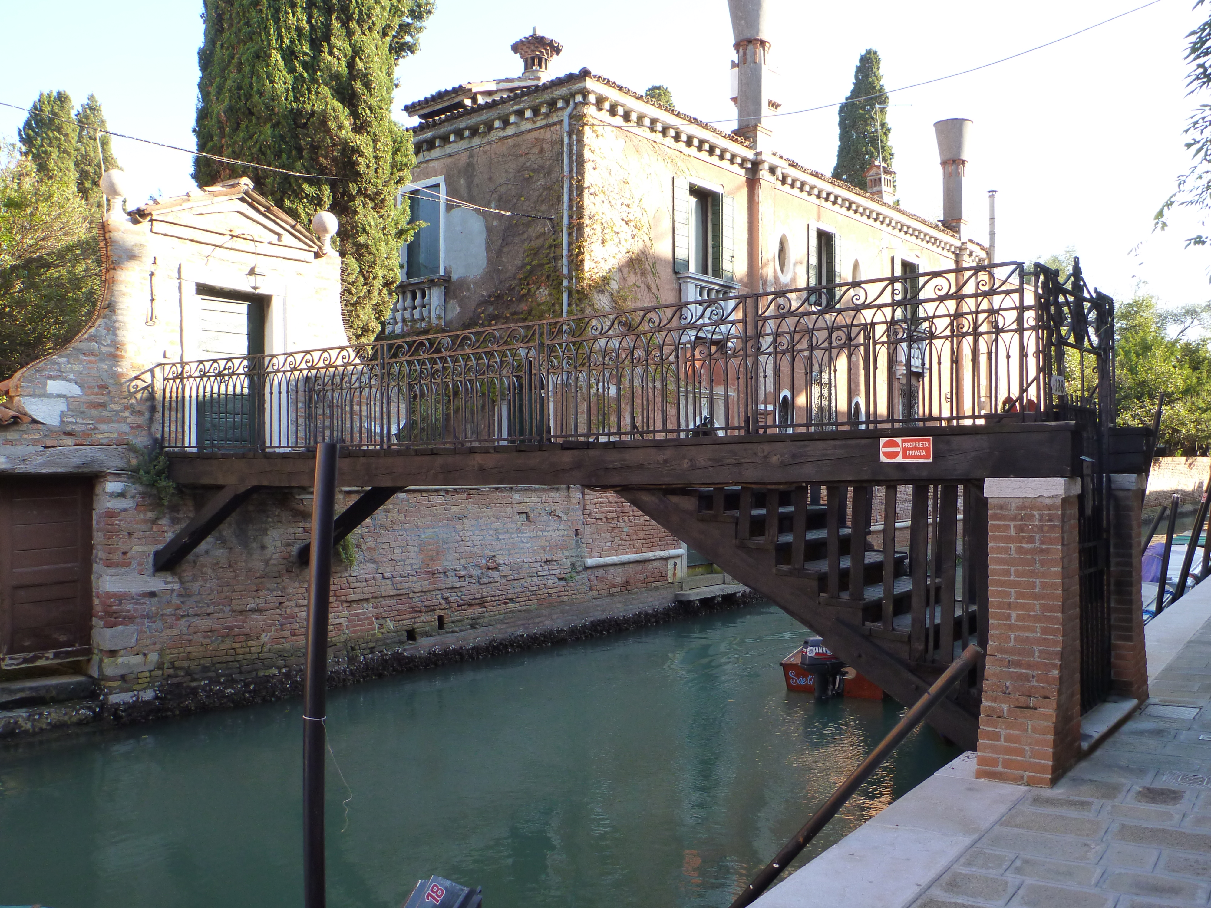 Private Bridge, Rio de la Croce, Giudecca (Venice)